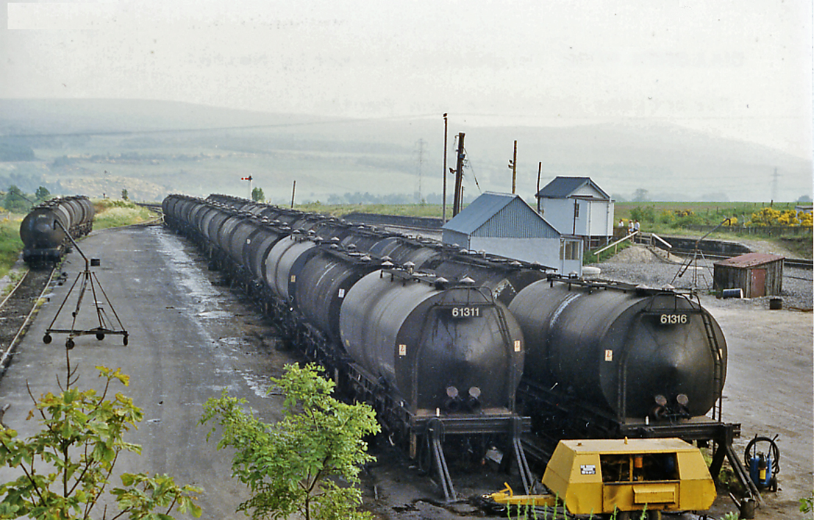 Bitumen tank-wagons at Culloden Moor station (site), 1986. View SE, towards Aviemore: ex-Highland Perth - Aviemore - Inverness main line. The station was closed 3/5/65 (goods 27/2/67), so what are all those tank-wagons doing there?